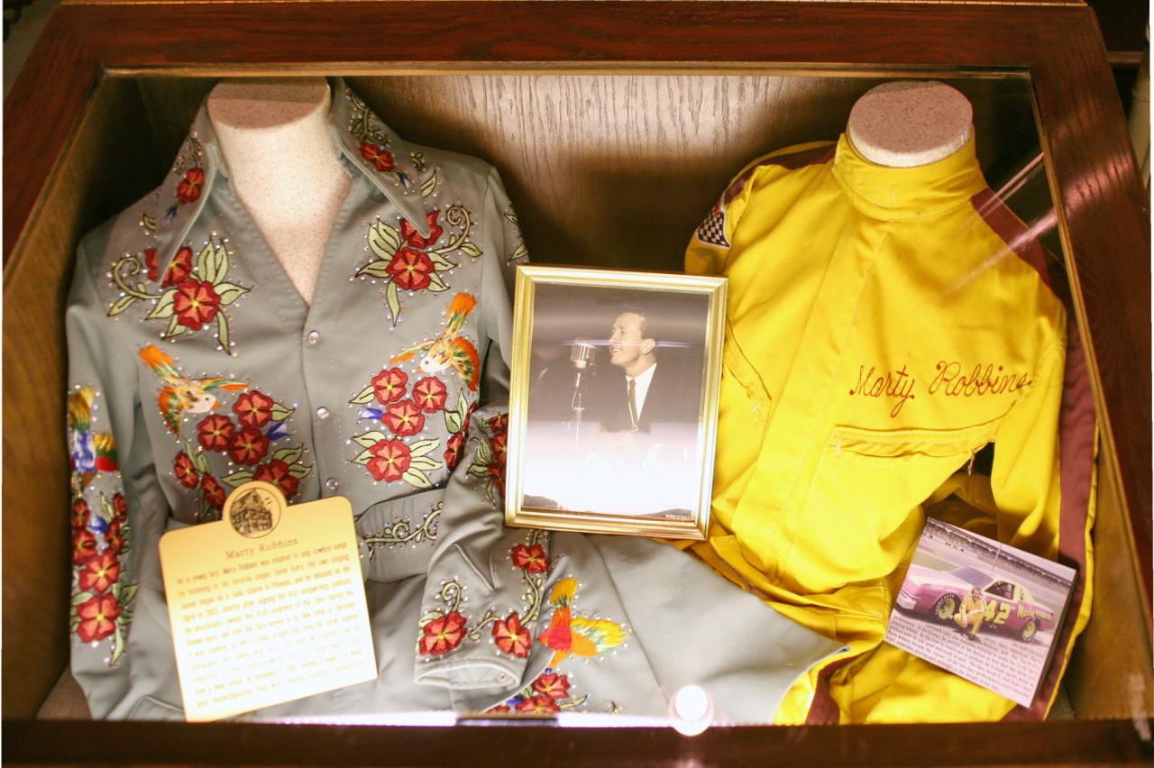 Marty Robbins (September 26, 1925 – December 8, 1982) was one of the most popular and successful American country and western singers of his era. For most of his nearly four decade career, Robbins was rarely far from the country music charts. Several of his songs also became pop hits.